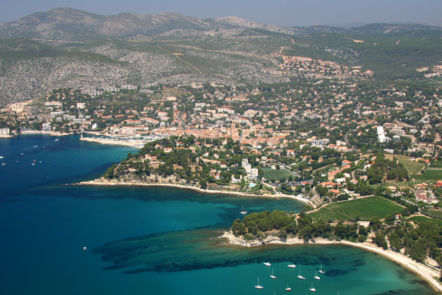 Panorama of Cassis (France)